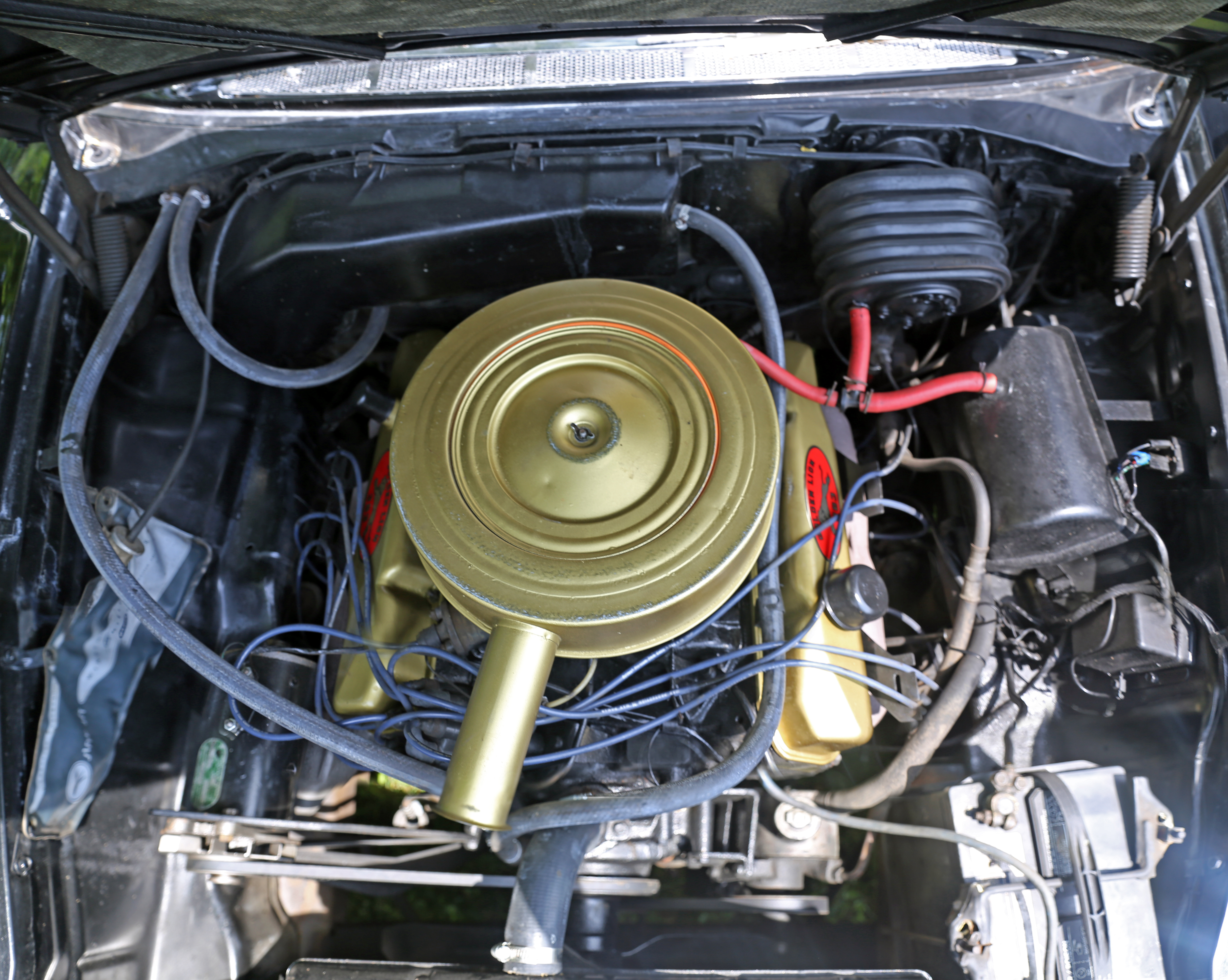 The 383ci B-series V8 engine with 305hp - this was the first year for the B-series. In a 1959 Chrysler Windsor four-door sedan (body style no 513, the most common with 19,910 built). The Windsor sits on the shorter wheelbase used on Dodges (122 vs 126 inches) rather than on the "proper" Chrysler chassis.